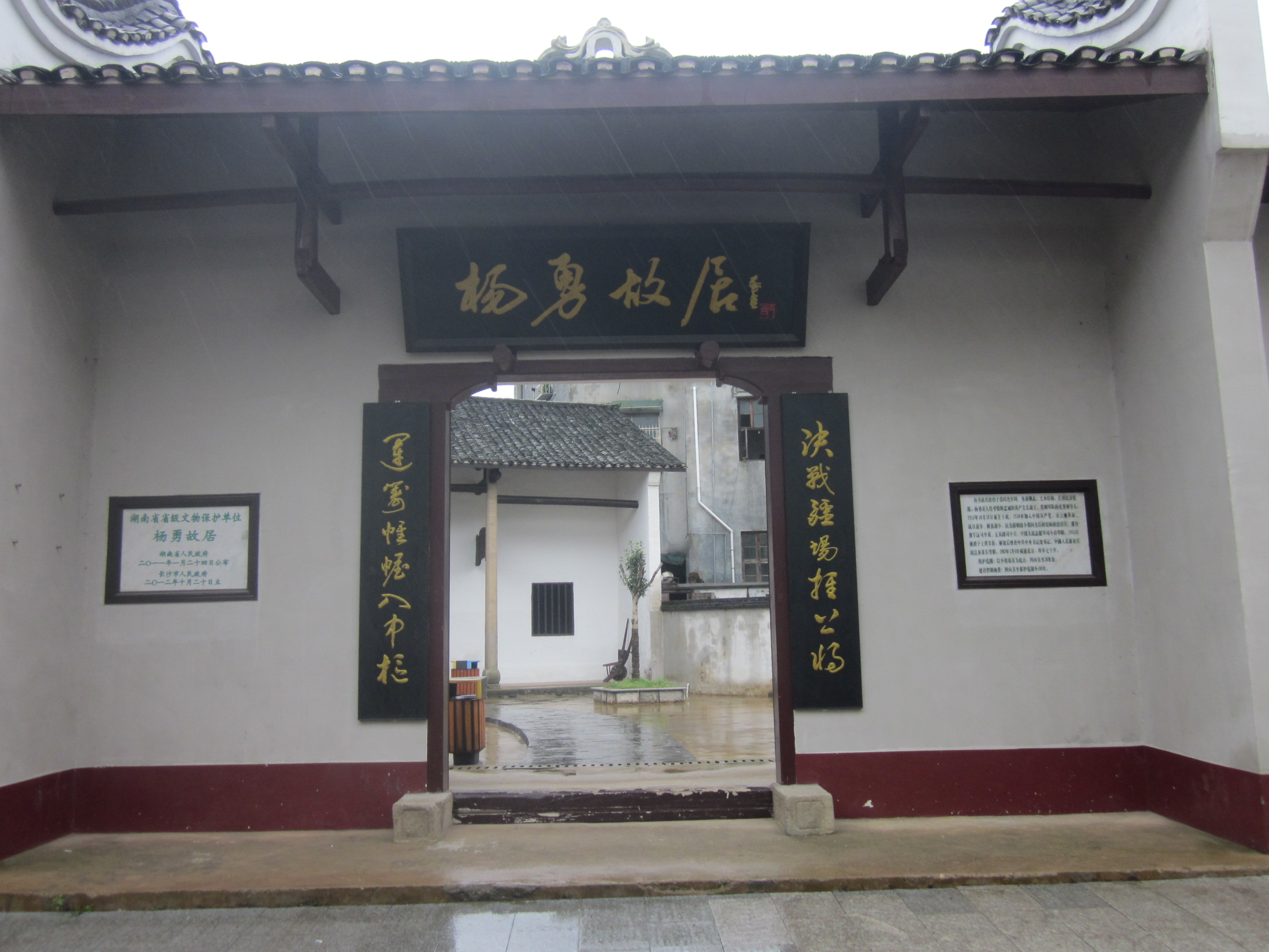 Yang Yong's Former Residence (Chinese: 杨勇故居) is one of the famous tourist attractions in Liuyang, Hunan, China.